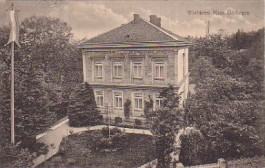 House of the fraternity K.St.V. Winfridia Göttingen in the year 1930